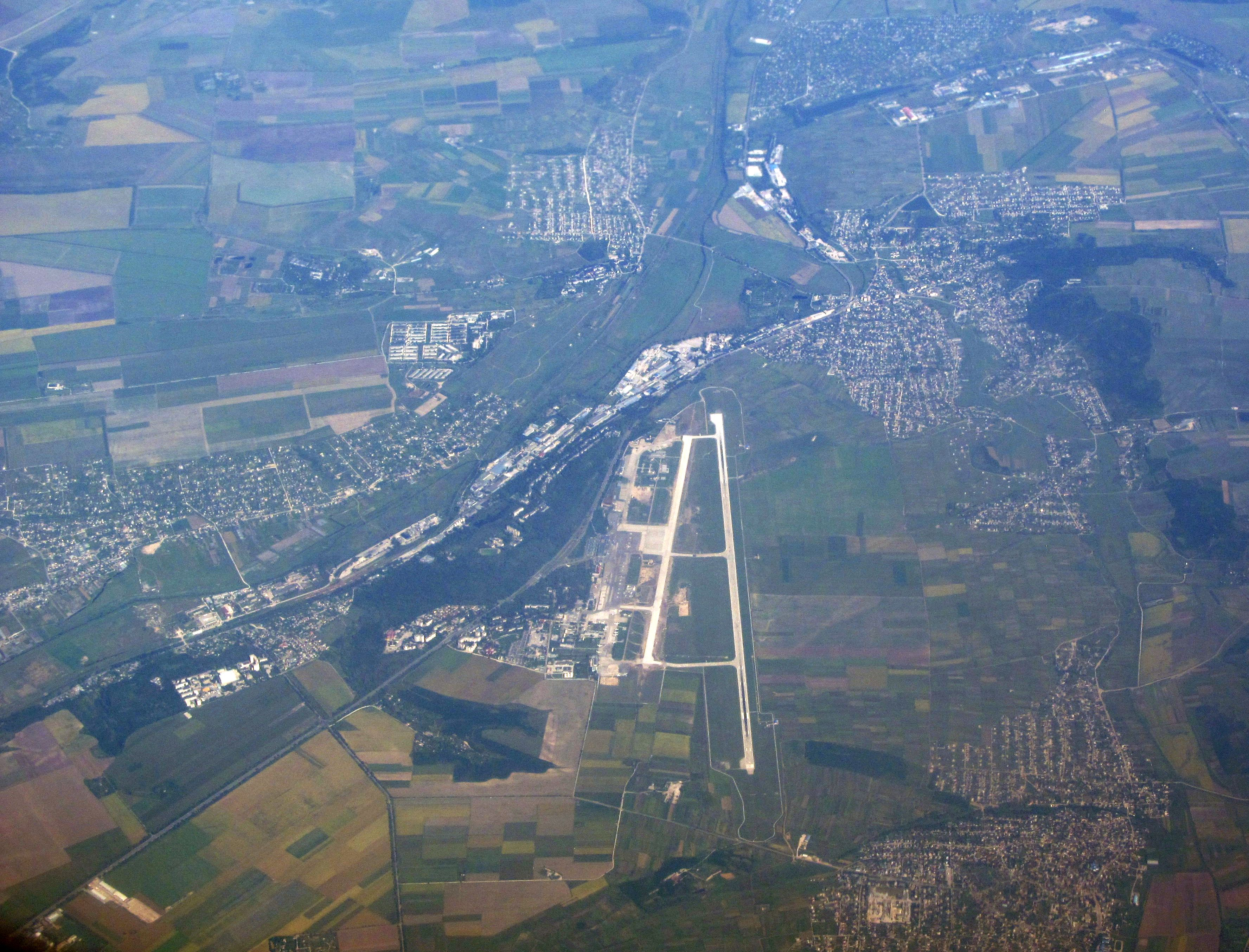 Aerial view of Chișinău International Airport and its surrounding settlements: Sîngera (right), Băcioi (bottom), Bubuieci (left), Floreni (middle)